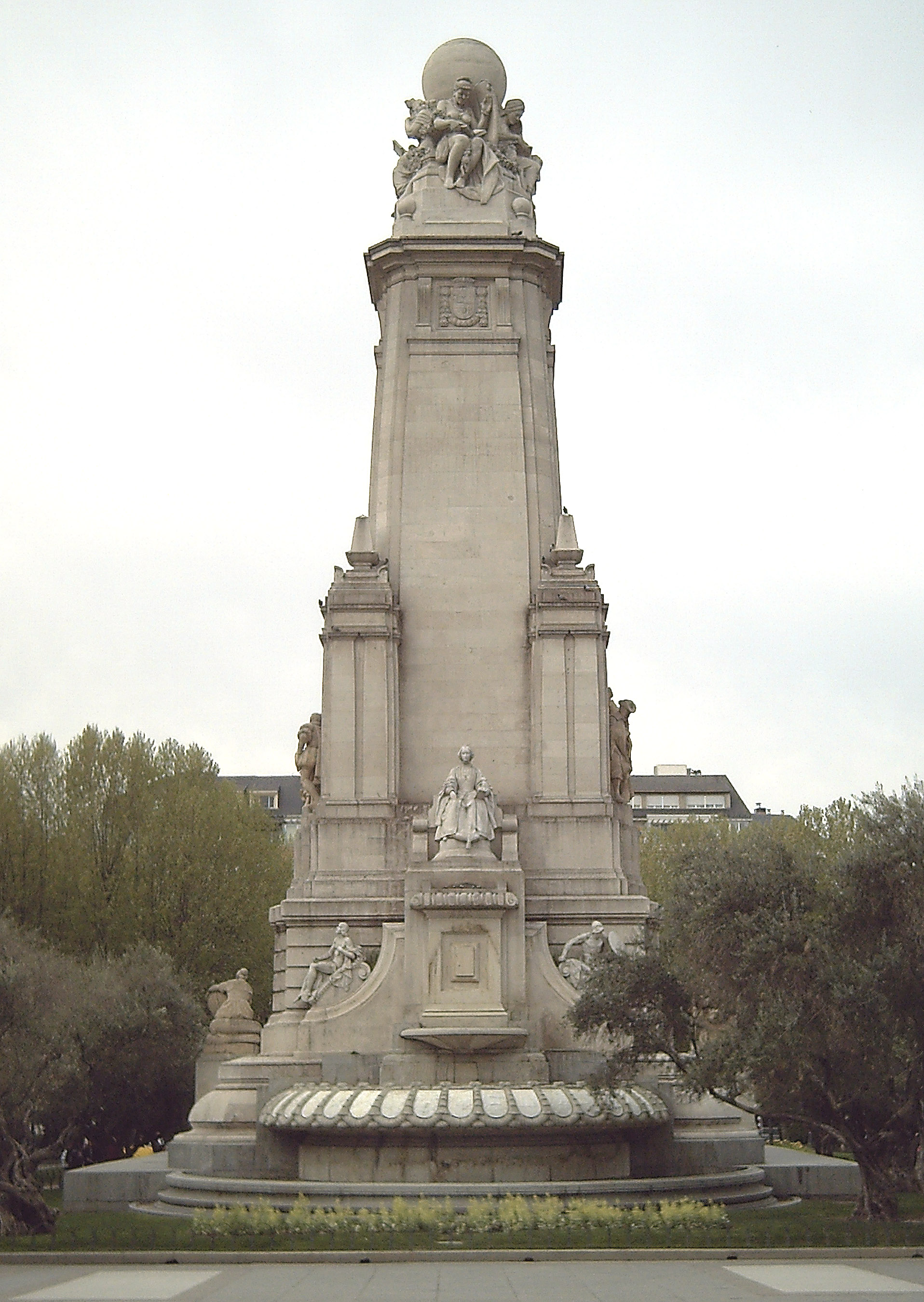 North-eastern side of the monument to Miguel de Cervantes at the Plaza de España ("Spain Square") in Madrid (Spain).